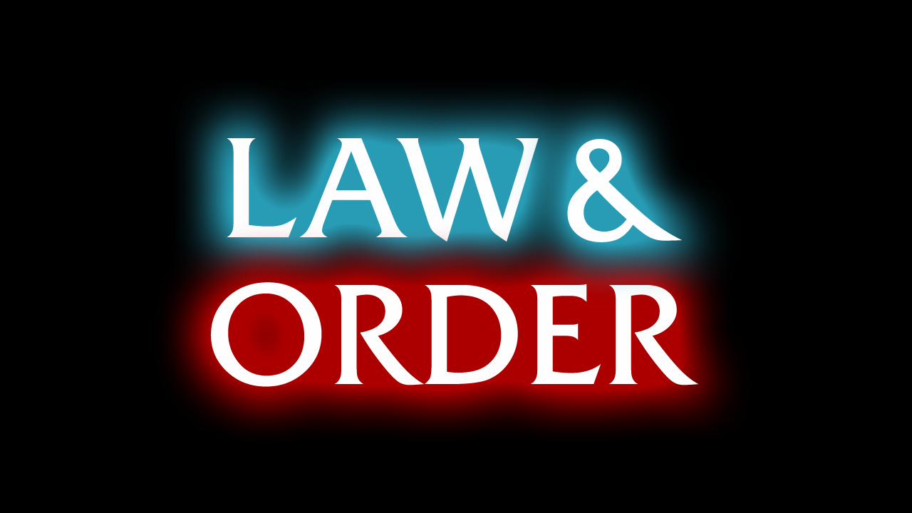 Self made Law & Order logo